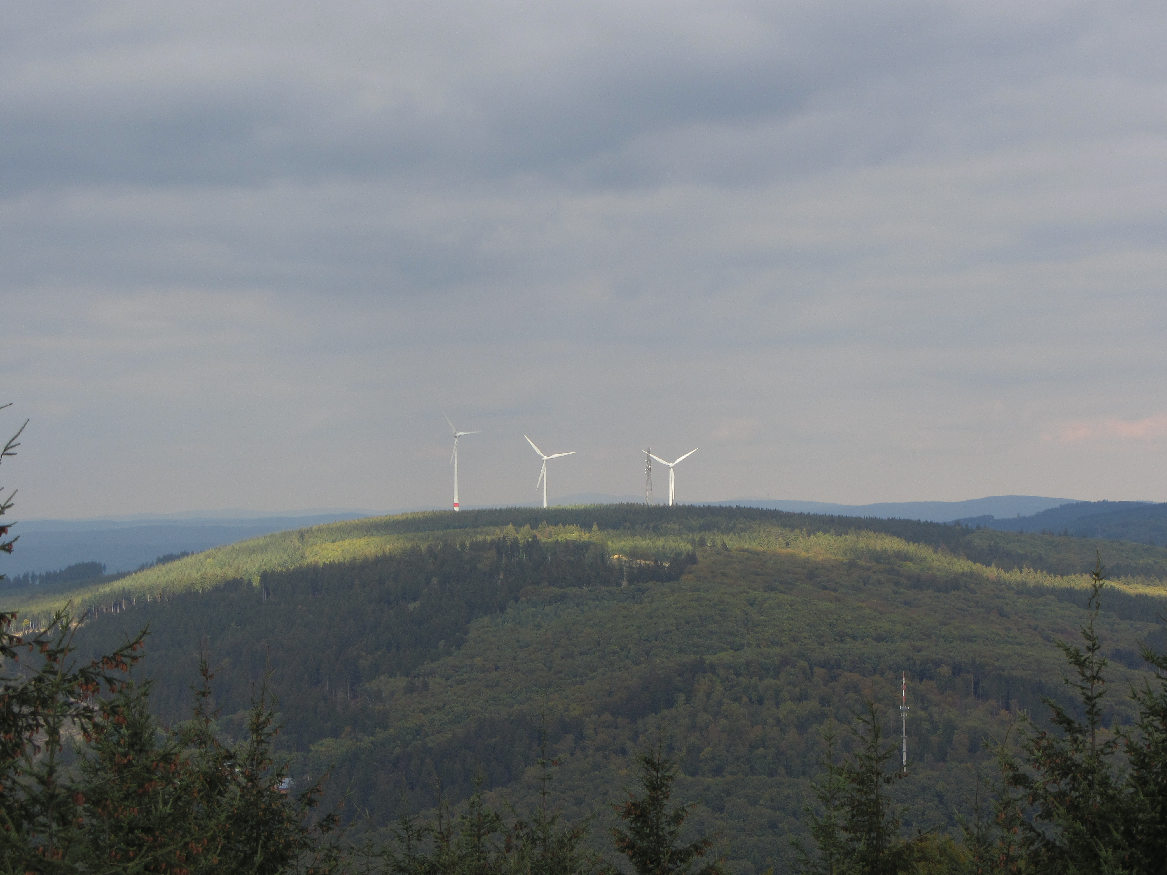 Kandrich from look-out Hochsteinchen